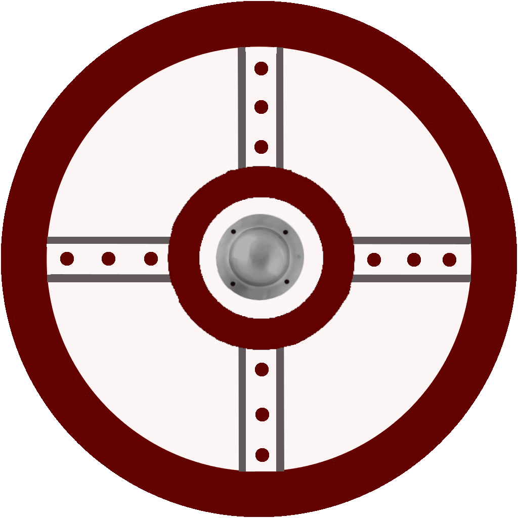 Shield pattern o.t. Secundani Italiciani, a legiones comitatenses unit, listed in the Magister Peditum's infantry roster.